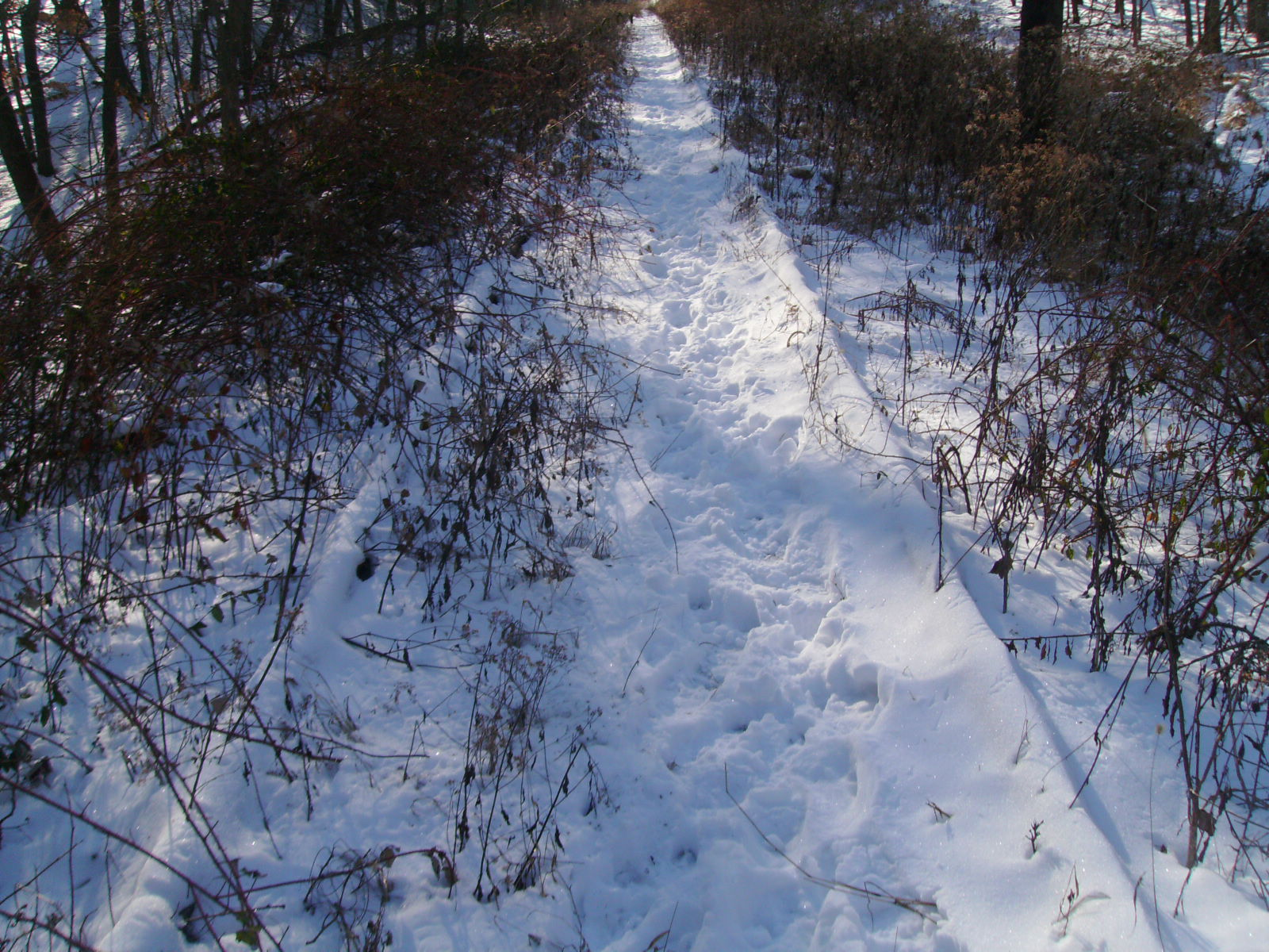 The Rahway Valley Railroad's abandoned rails paralleling North Michigan Avenue in Kenilworth, New Jersey.